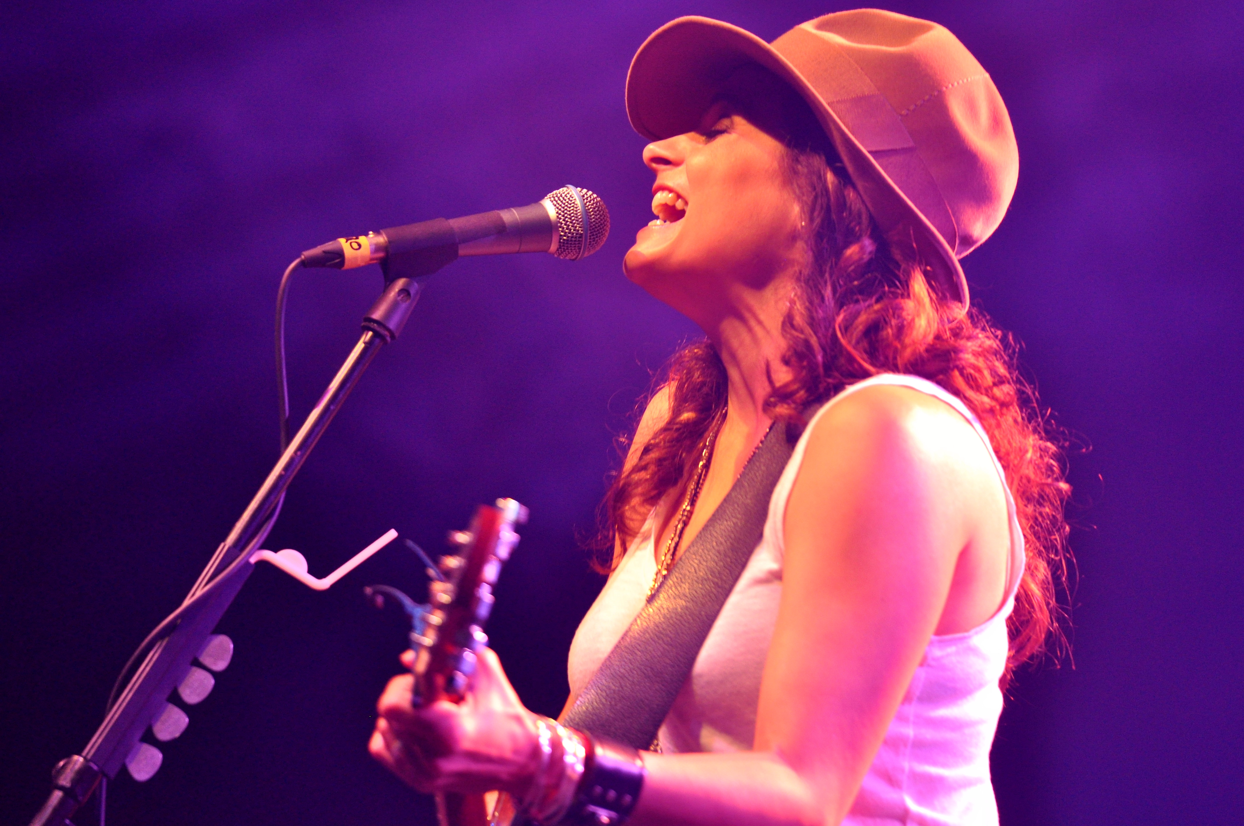 Antigone Rising (USA) appearance at the 2016 blacksheep festival at Bonfeld castle, Bad Rappenau, Baden-Wuerttemberg, Germany Festivalsommer This photo was created with the support of donations to Wikimedia Deutschland in the context of the CPB project "Festival Summer".